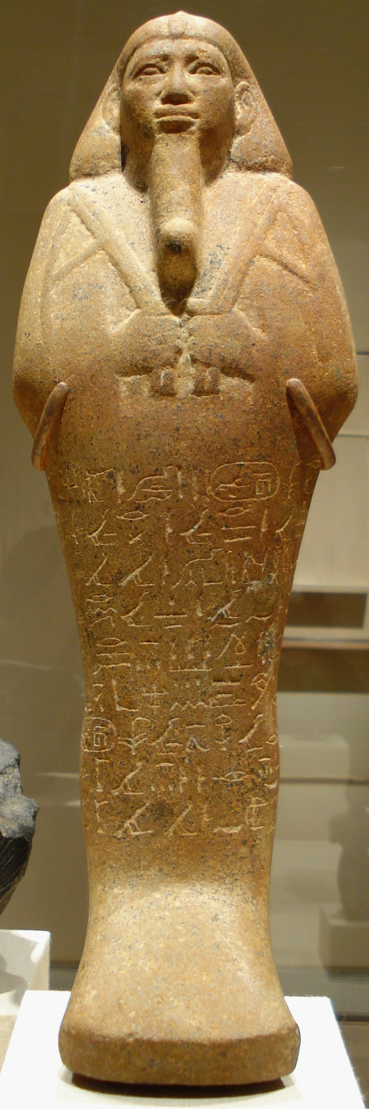 Shabti of King Taharqa. Ankerite. Third Intermediate Period, Dynasty XXV, c. 690-664 BC. From Nuri, pyramid 1.